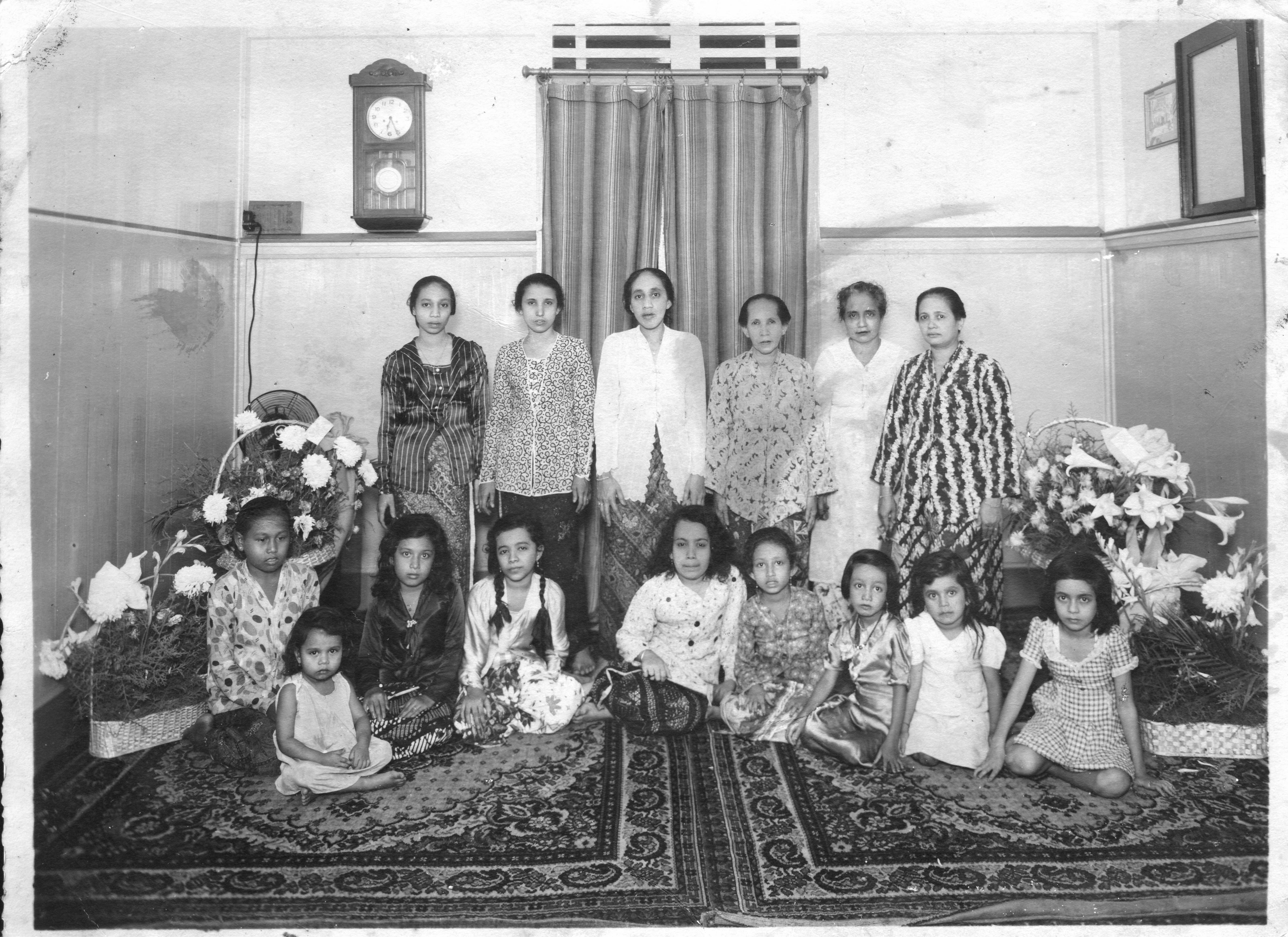 Ladies of Hadhrami decents in Palembang, circa 1950